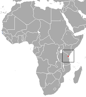 Tanzanian Shrew (Crocidura tansaniana) range